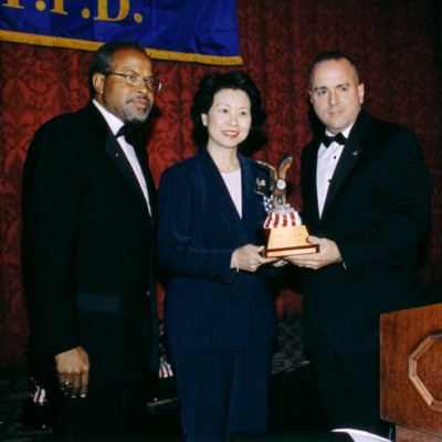 Randy Daniels and Elaine Chao